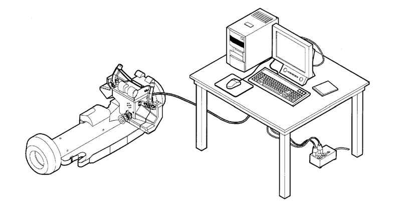 Javelin Basic Skills Trainer